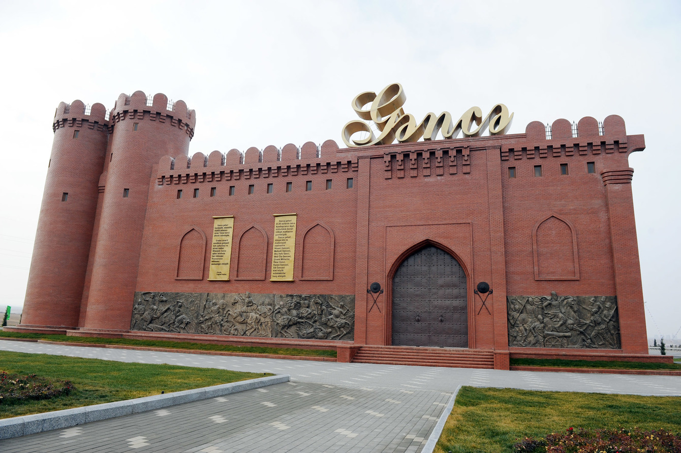 Ilham Aliyev reviewed the monumental complex Ganja Fortress Gates - the Museum of Archeology and Ethnography